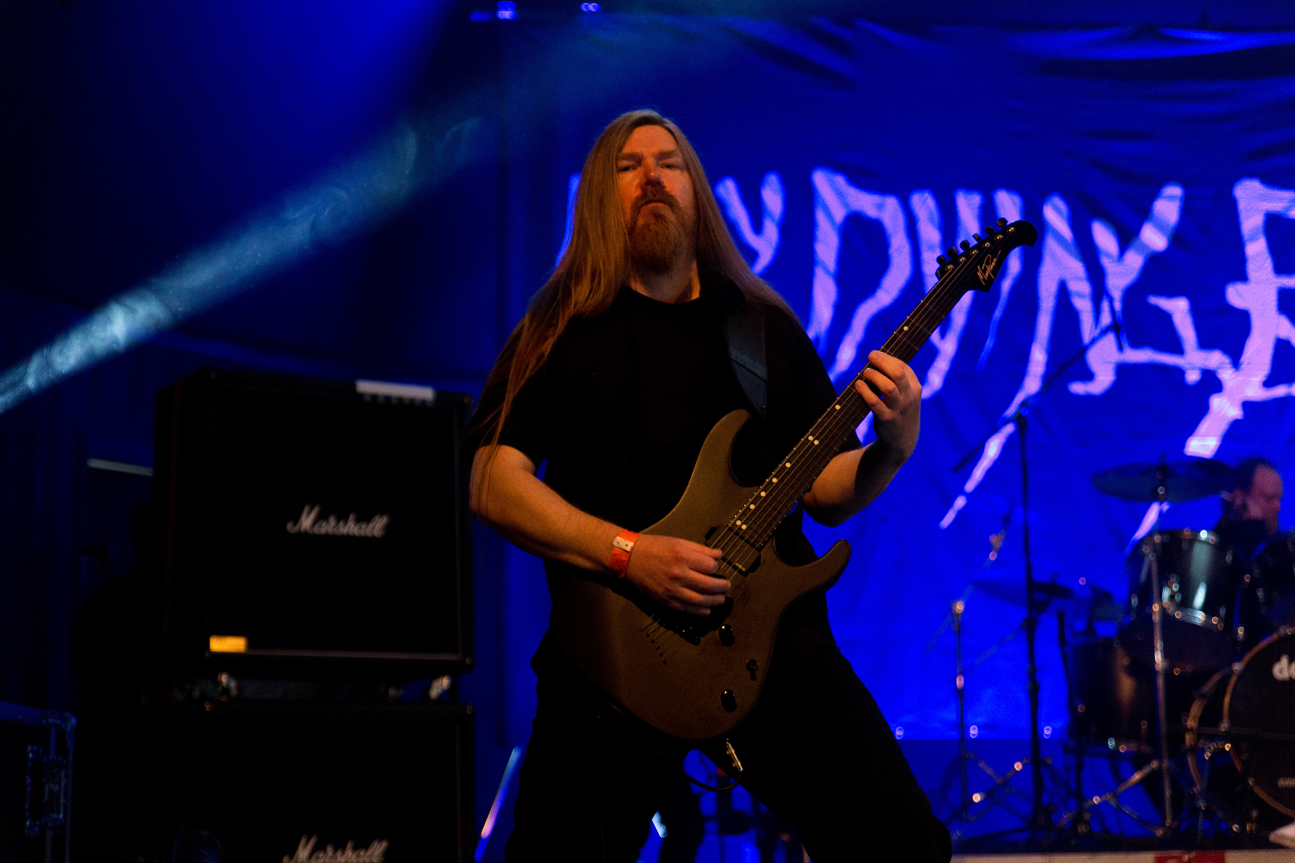 The British doom metal band My Dying Bride at the 25. Wave-Gotik-Treffen 2016 in Leipzig/Germany.